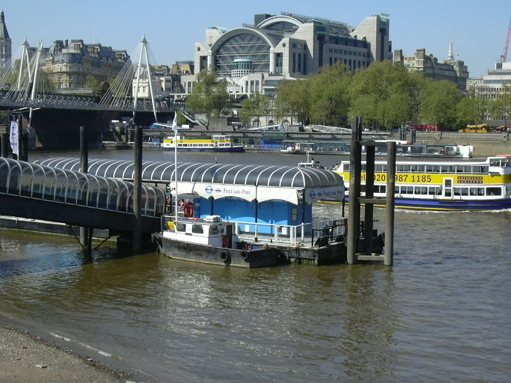 Photo of Festival Pier in the River Thames taken by myself in April 2007. I hereby release it into the public domain.